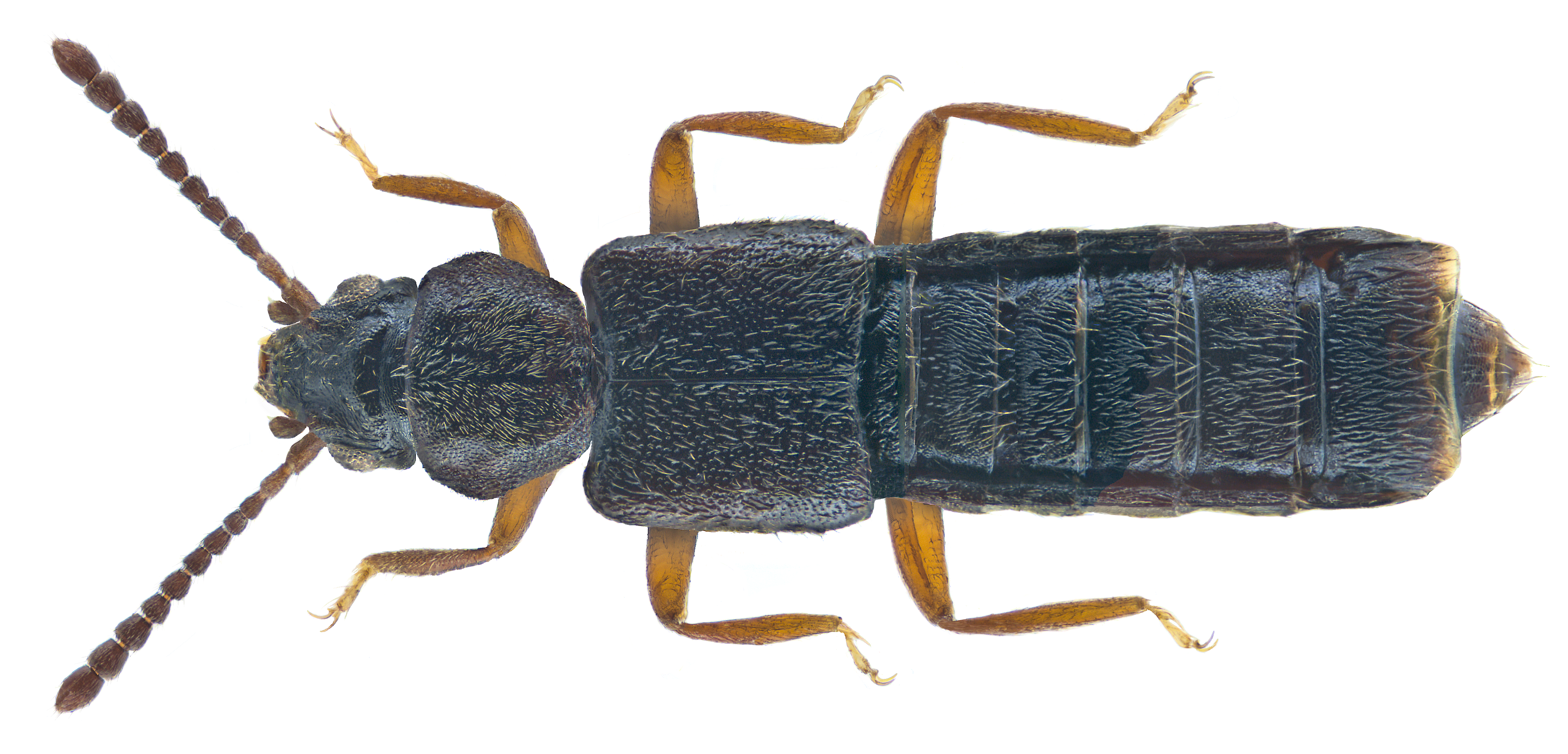 Family: Staphylinidae Size: 3,3 mm (2,8 to 3,4 mm) Origin: Central Europe, Southeast Europe, Caucasus Ecology: lives on banks Location: Germany, Rheinland-Pfalz, Monzingen, Nahe river leg. det. F.Koehler, 20.V.1991 Photo: U.Schmidt, 2015